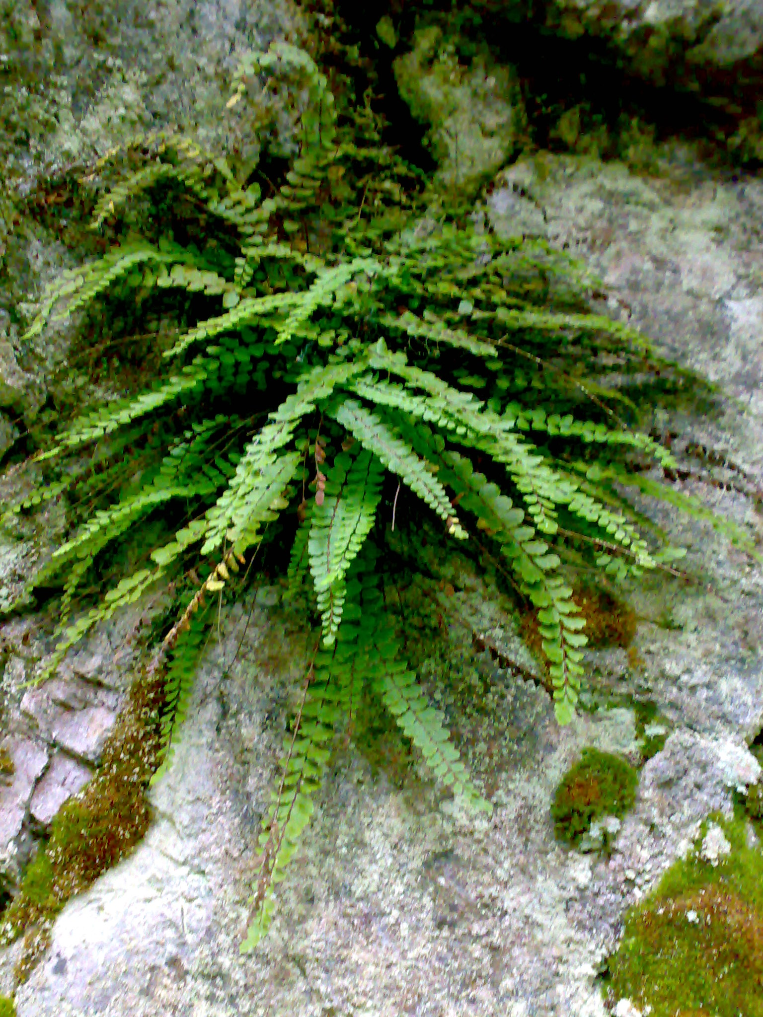 Asplenium trichomanes ssp trichomanes, Baerum, Akershus, Norway. Hallmarks: Dark stems all the way to the tip and outer leaves.